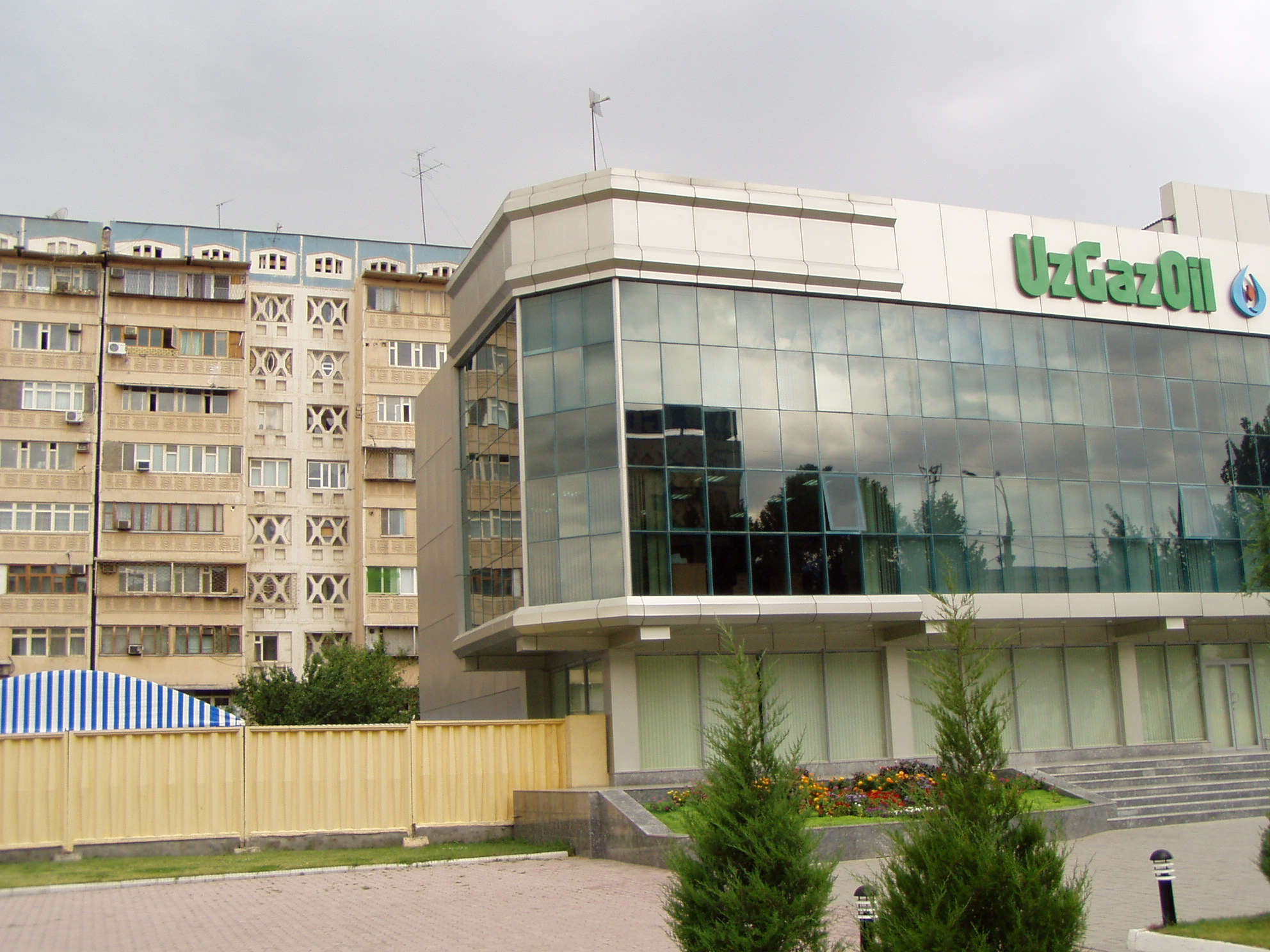 Old apartment houses and modern business centre in Tashkent